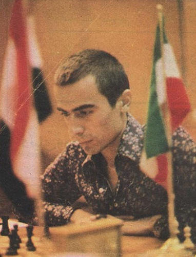 Khosro Harandi - 1974 Western Asia Chess Championship, Tehran